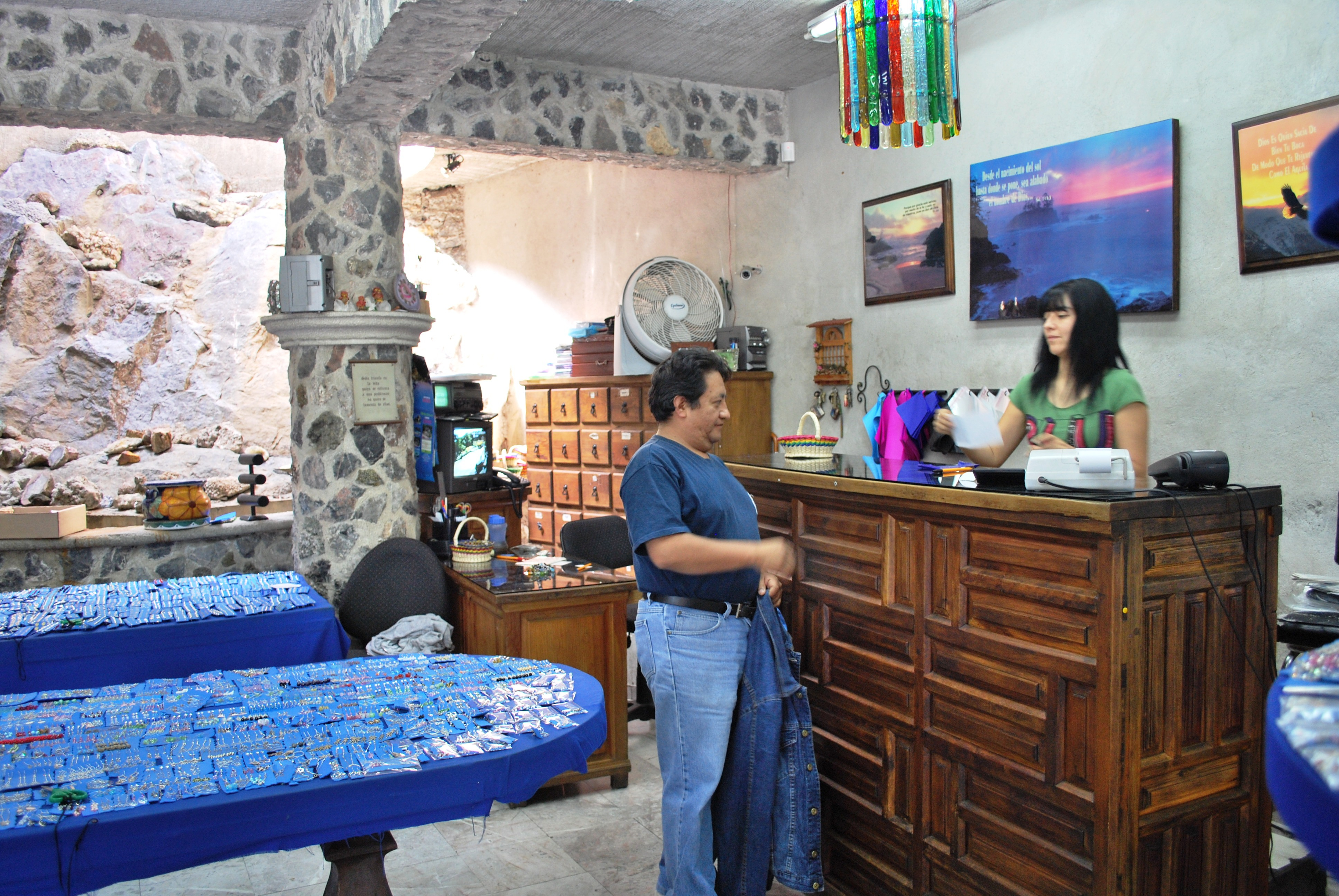 Making a purchase at the Real de Mina Silver shop in Taxco de Alarcón, Guerrero, Mexico